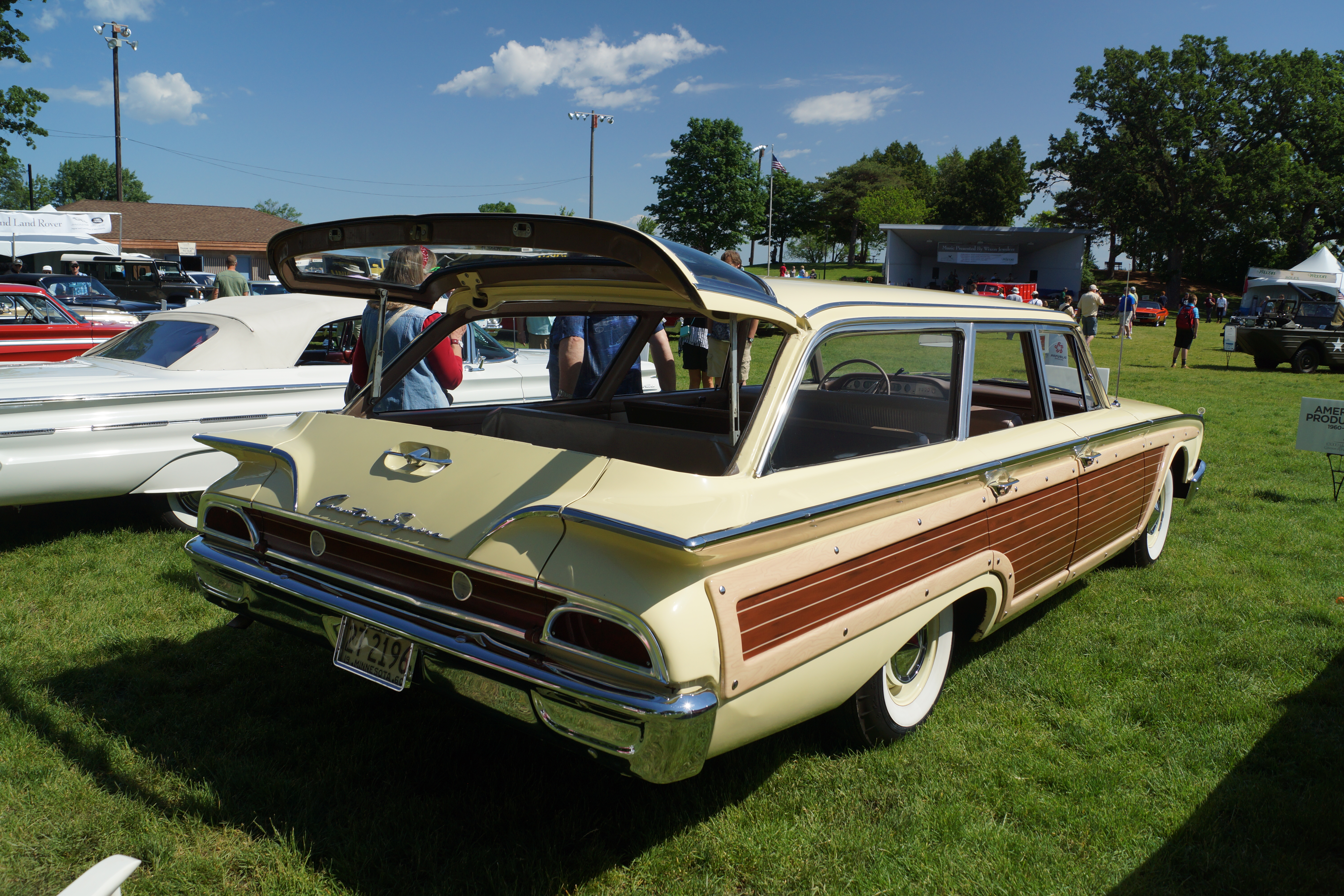 Beautiful weather, excellent location and amazing cars & boats made the 10,000 Lakes Concours d'Elegance 2016 a great day for the participants and spectators. The organizers, volunteers and participants deserve a standing ovation. Pictures of 10,000 Lakes Concours d'Elegance 2013 Pictures of 10,000 Lakes Concours d'Elegance 2014 Pictures of 10,000 Lakes Concours d'Elegance 2015 Click here for more car pictures at my Flickr site.